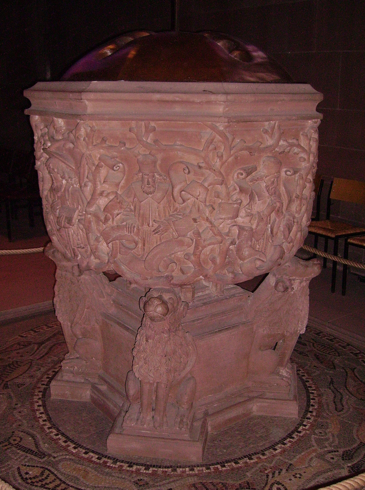 cathedral of Worms, Germany